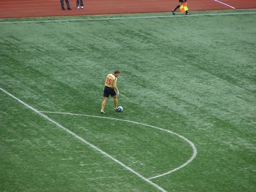 Igor Akinfeev. 2007 Russian Football Premierleague (PFC CSKA Moscow v.s. FC Saturn)